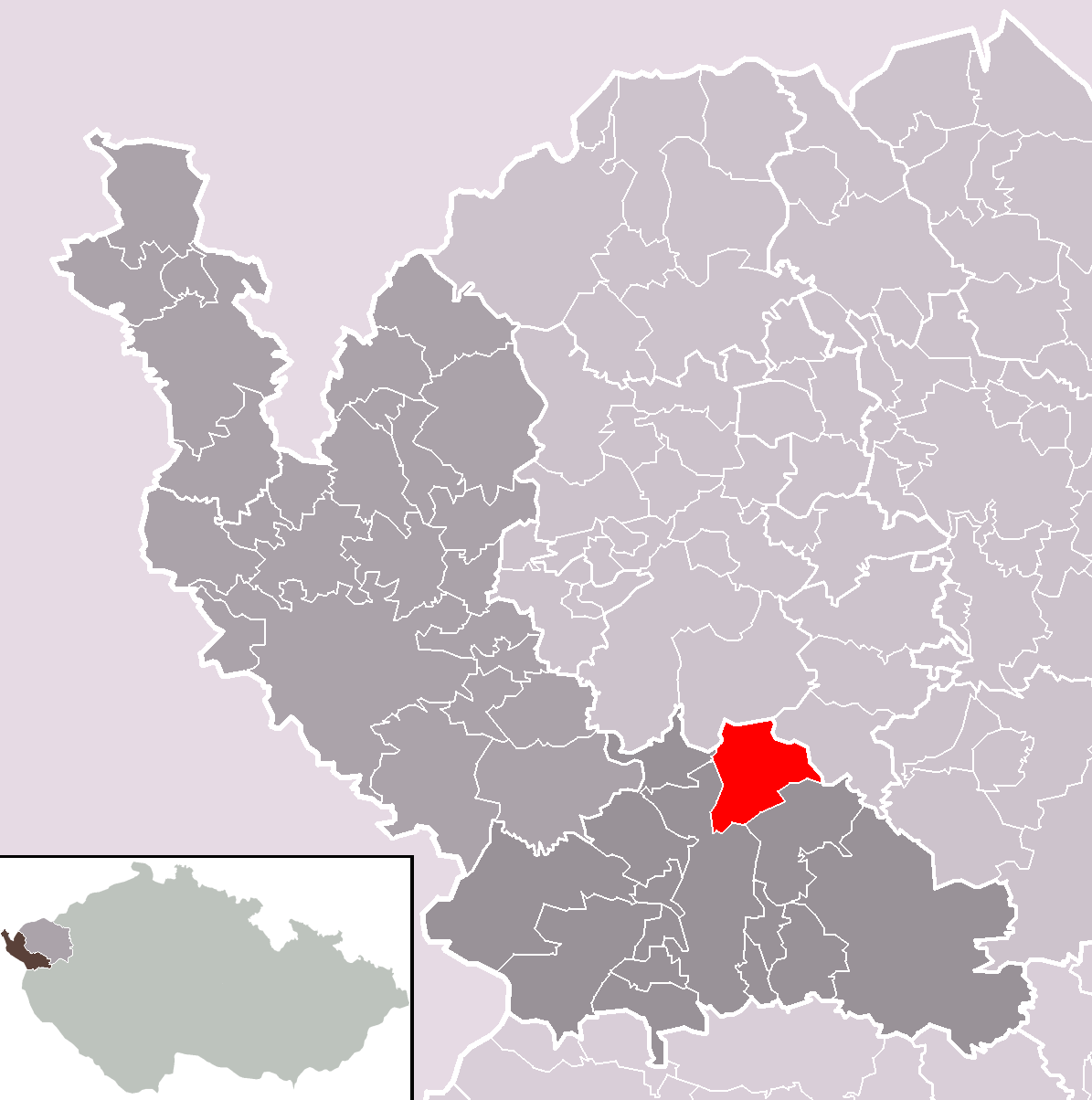 Location of Prameny municipality within Cheb District and administrative area of Mariánské Lázně as a Municipality with Extended Competence.